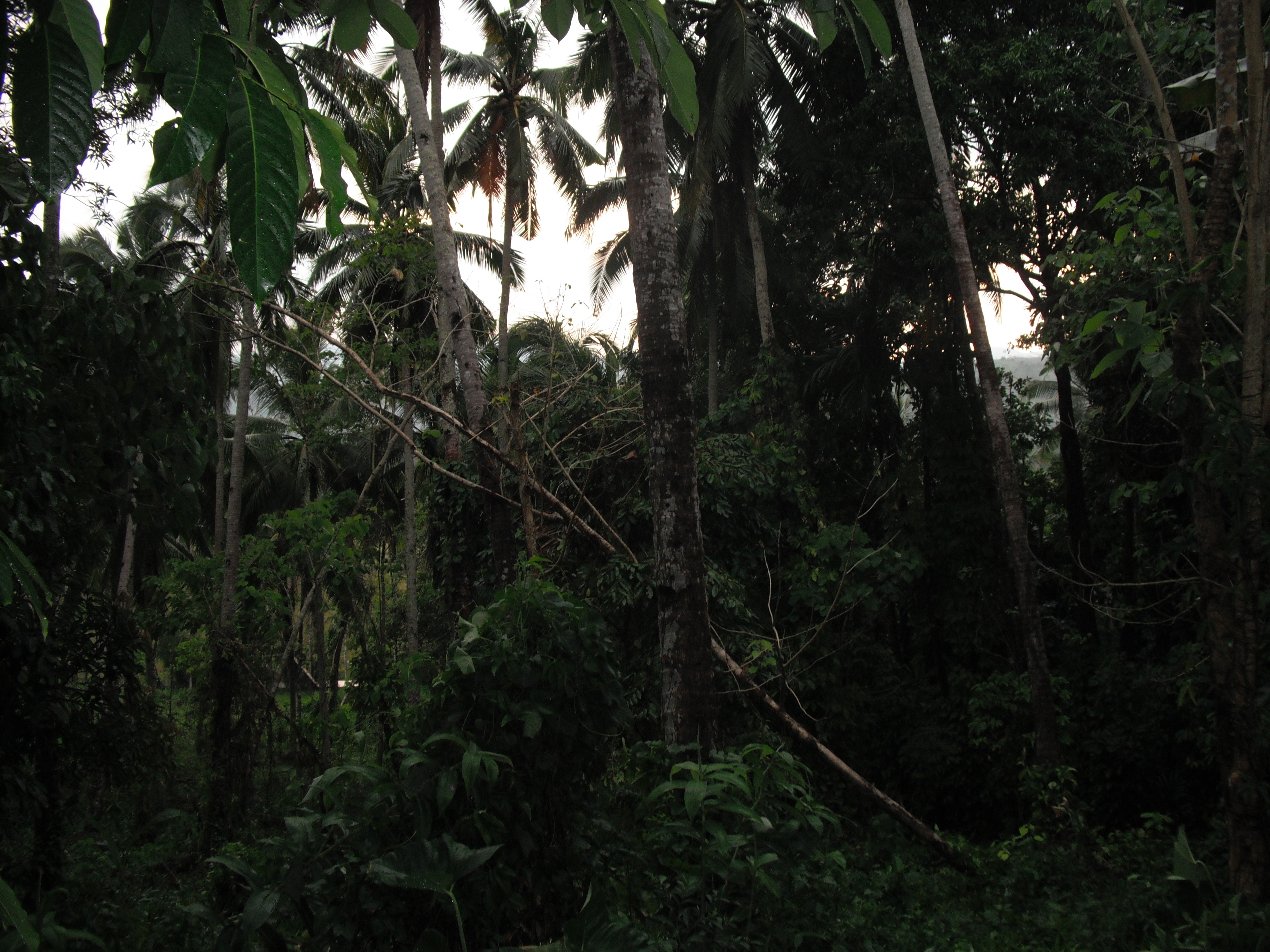 the Philippines' most abundant forest